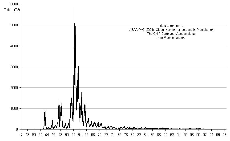 Tritium_in_Ottawa_Precipitation_from_the_50s_to_2002